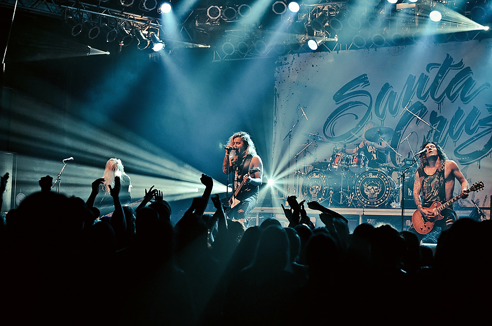 Santa Cruz performing on 26 November 2016 at the Pakkahuone in Tampere, Finland.